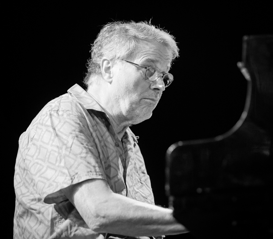 Bobo Stenson with Stenson/Christensen/Ljungkvist in Energimølla. The concert was part of Kongsberg Jazzfestival and took place on 07. July 2018 in Kongsberg. Lineup:Bobo Stenson (piano)Jon Christensen (drums)Fredrik Ljungkvist (saxophone and clarinet)